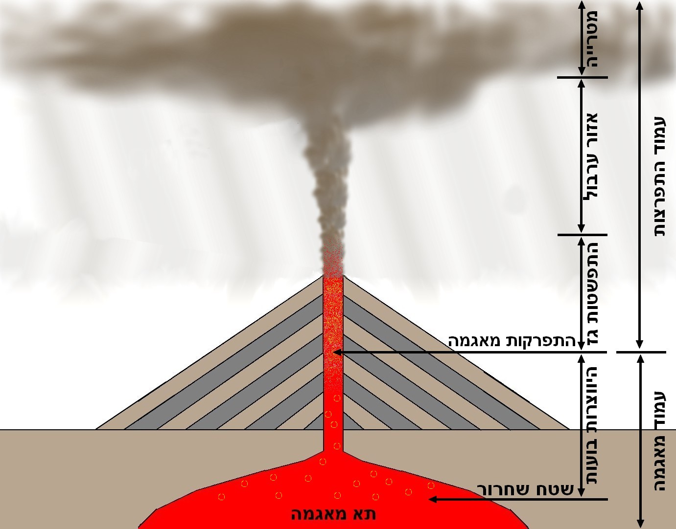 structure of eruption column